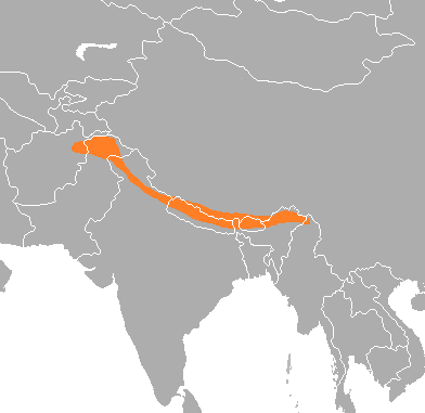 Lophophorus impejanus range map